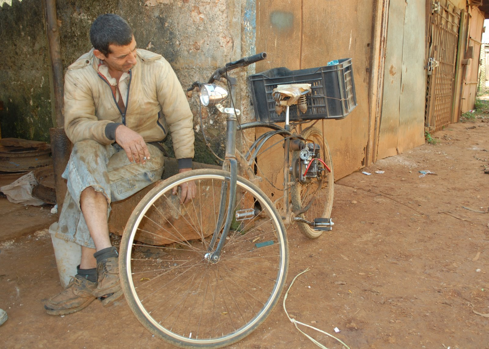 Cuban riquimbili, or improvised motorized bicycle. January 14, 2009.